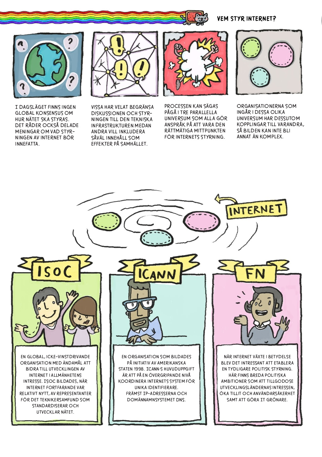 The illustrated history of Internet. A comic created for children and youths illustrated by Jesper Wallerborg for Internetmuseum.